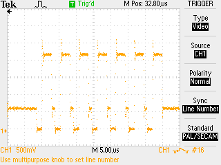 Macrovision pulses located on some of the otherwise unused lines of the video signal. Here the pulses are small causing a VCR auto contrast circuit to lighten the picture